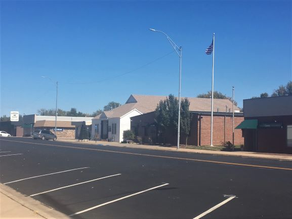 A photograph of Goddard, Kansas as it appeared in October 2018.